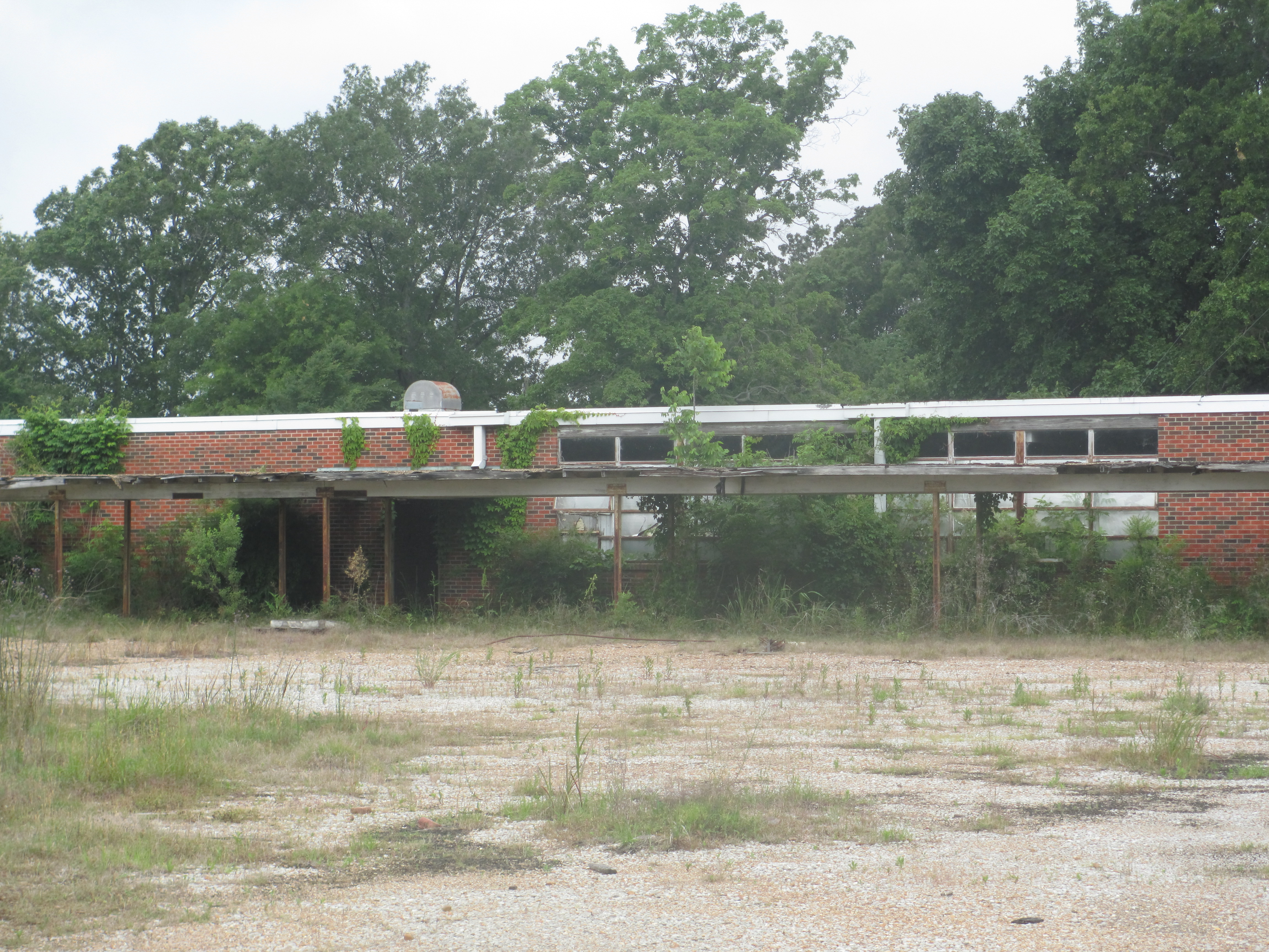 I took photo with Canon camera of former school complex in Pioneer, LA.